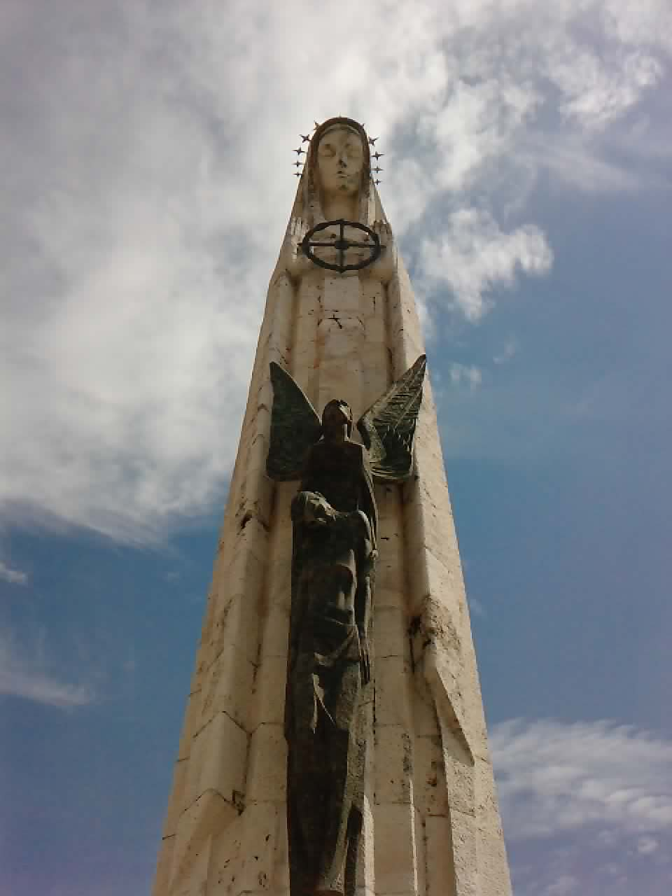 Statue of the Virgin of the head next to the Basilica of Our Lady of the Head. Andújar, Jaén (Spain).